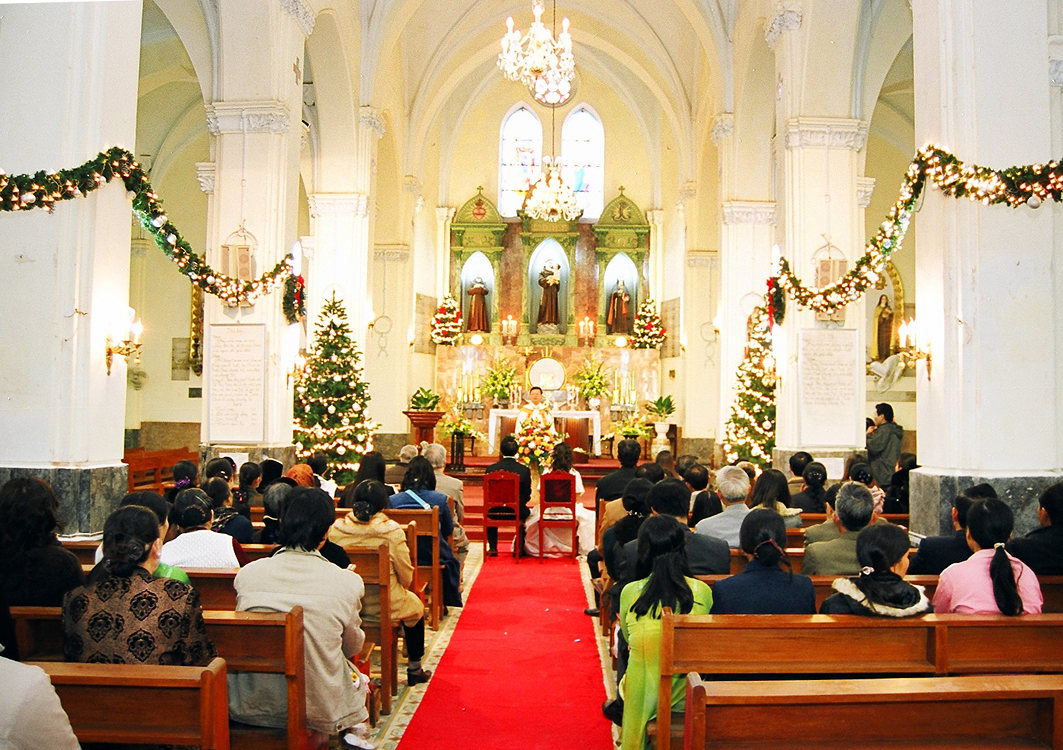 Ham Long Church, Hanoi, Vietnam